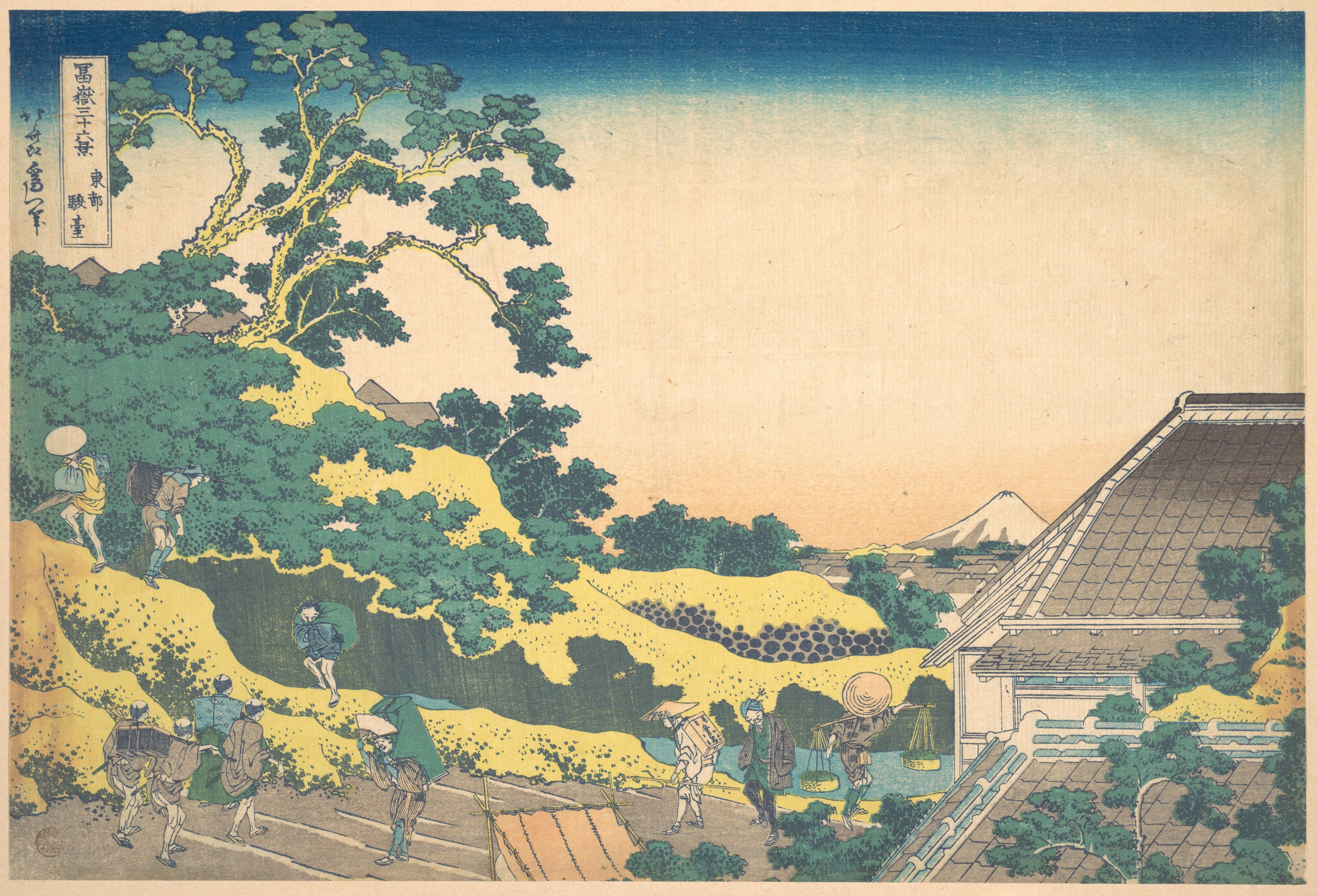 Japan; Woodblock print; Prints